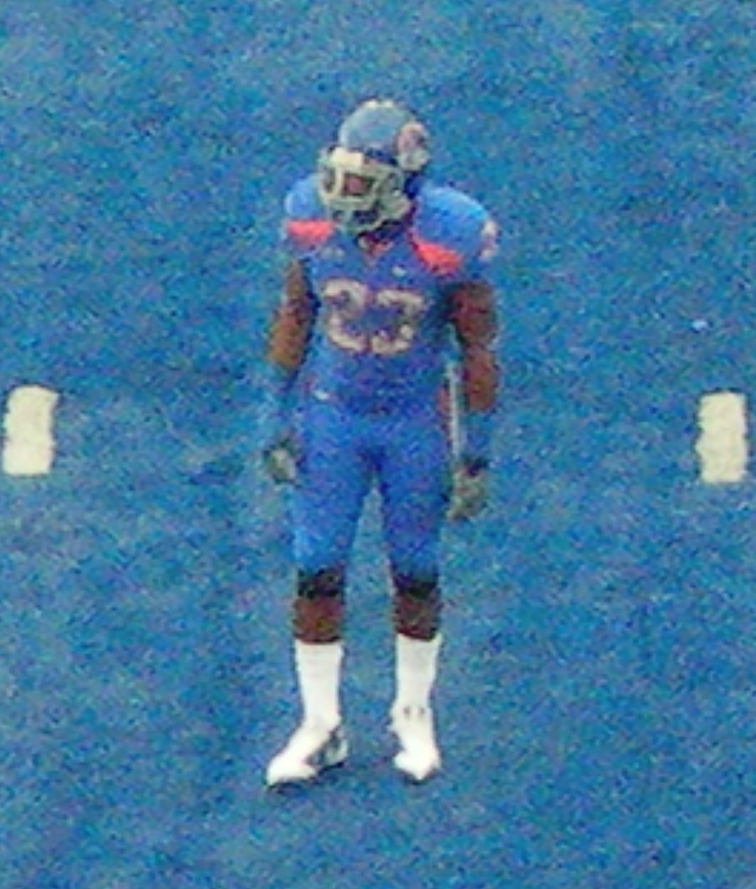 Jeron Johnson of Boise State during a game vs San Jose State on October 31, 2009 in Boise, ID